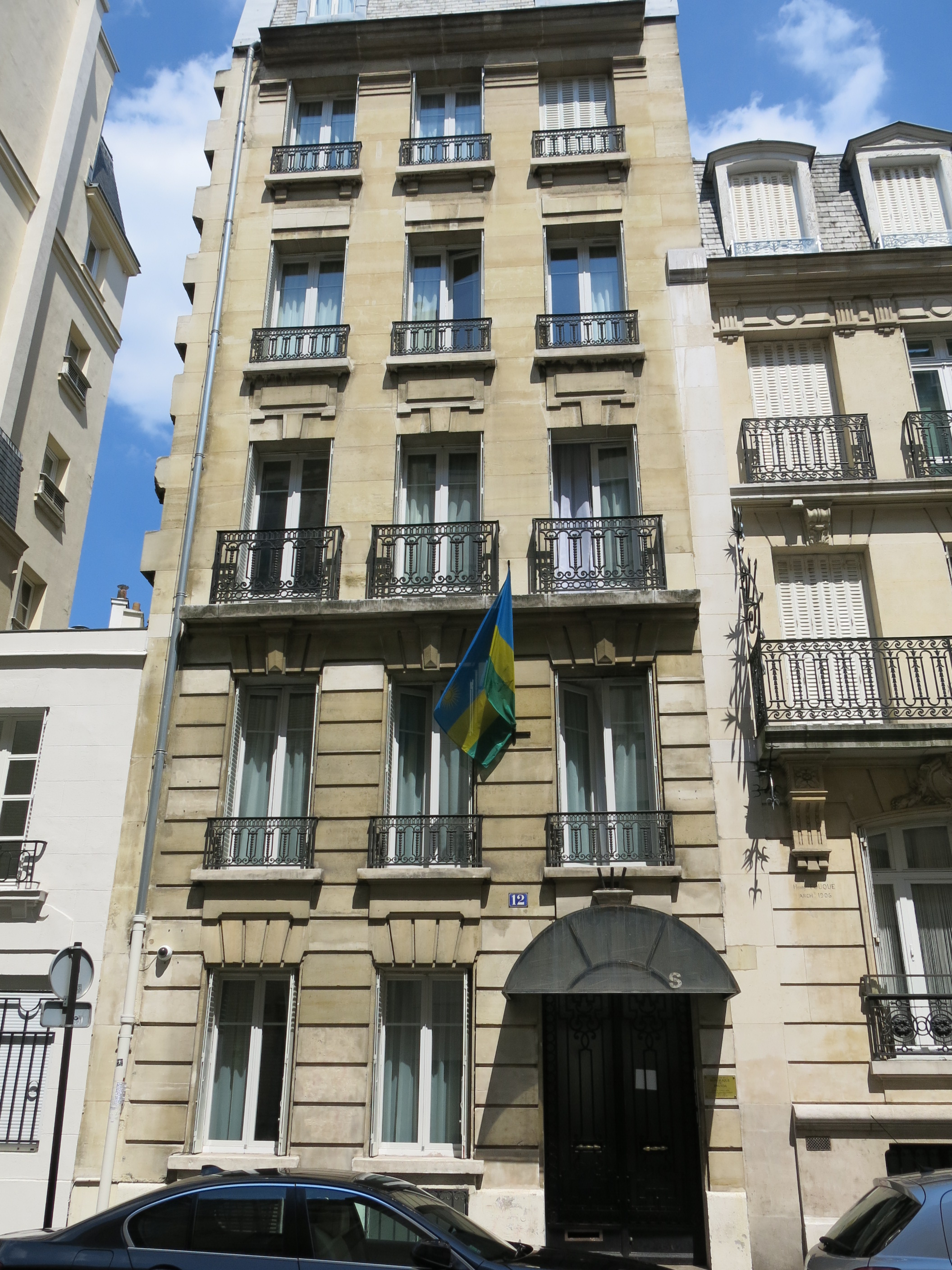 Building 12 rue Jadin, Paris 17th arrond. (France). Embassy of Rwanda.